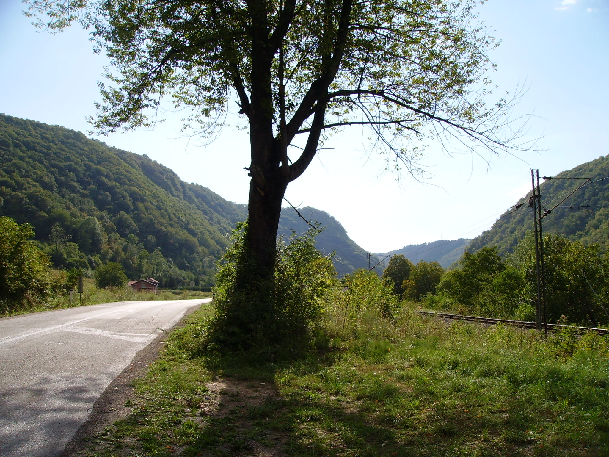 Una river valley between Bosanska Krupa and Ostrožac, Western Bosnia.